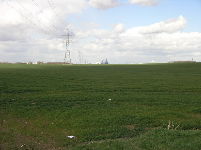 Pylons to the Power Station. These pylons begin their long journey from the nearby gas fired power station.